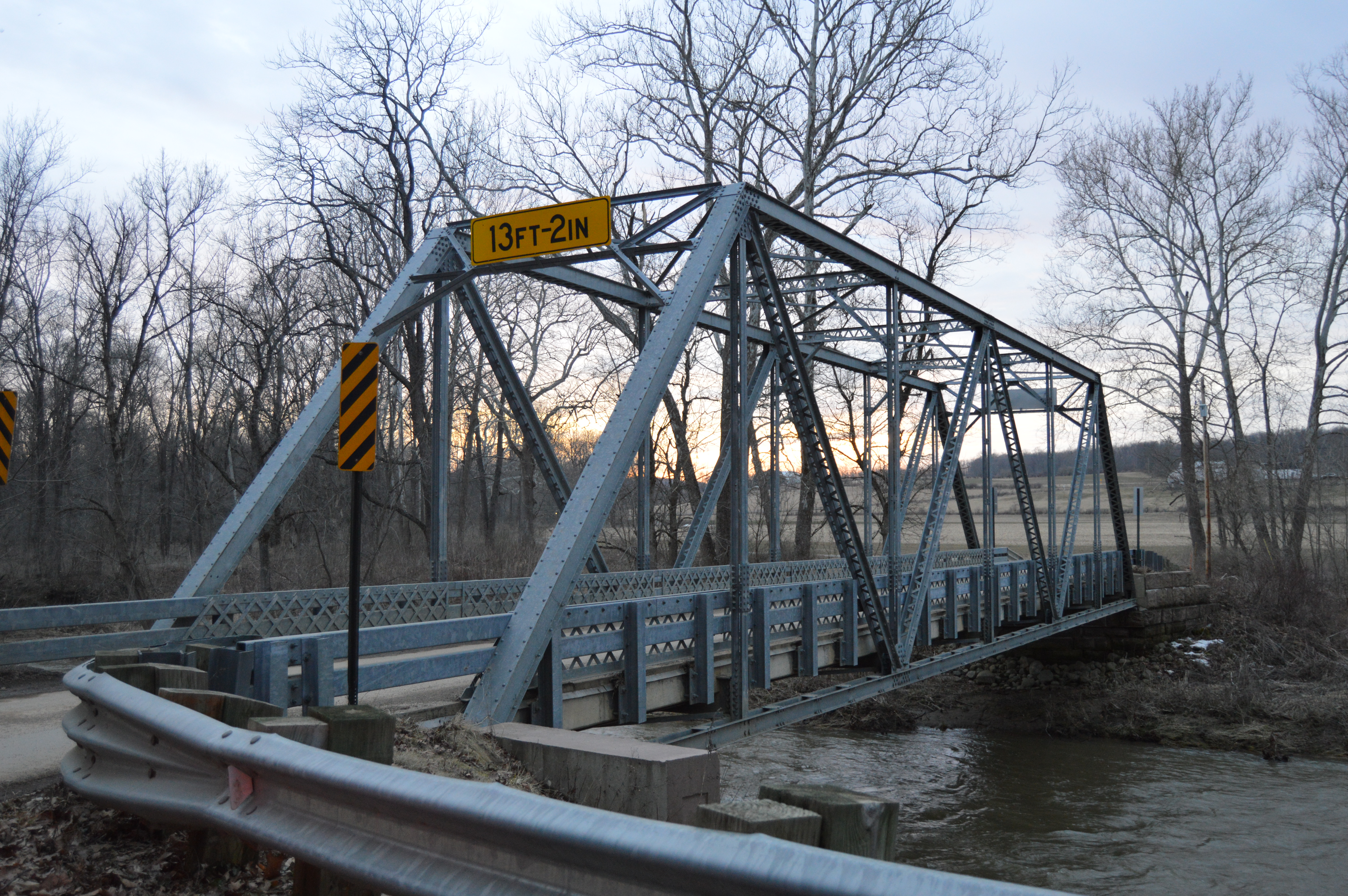 Northern side and eastern portal of the bridge that carries Benedict Road over the Clear Fork northeast of Butler in Worthington Township, Richland County, Ohio, United States.